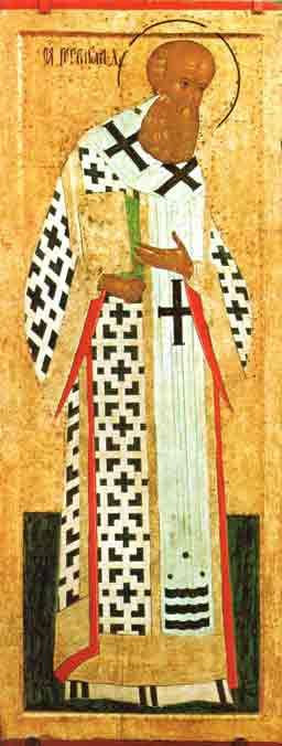 Gregory of Nazianzus